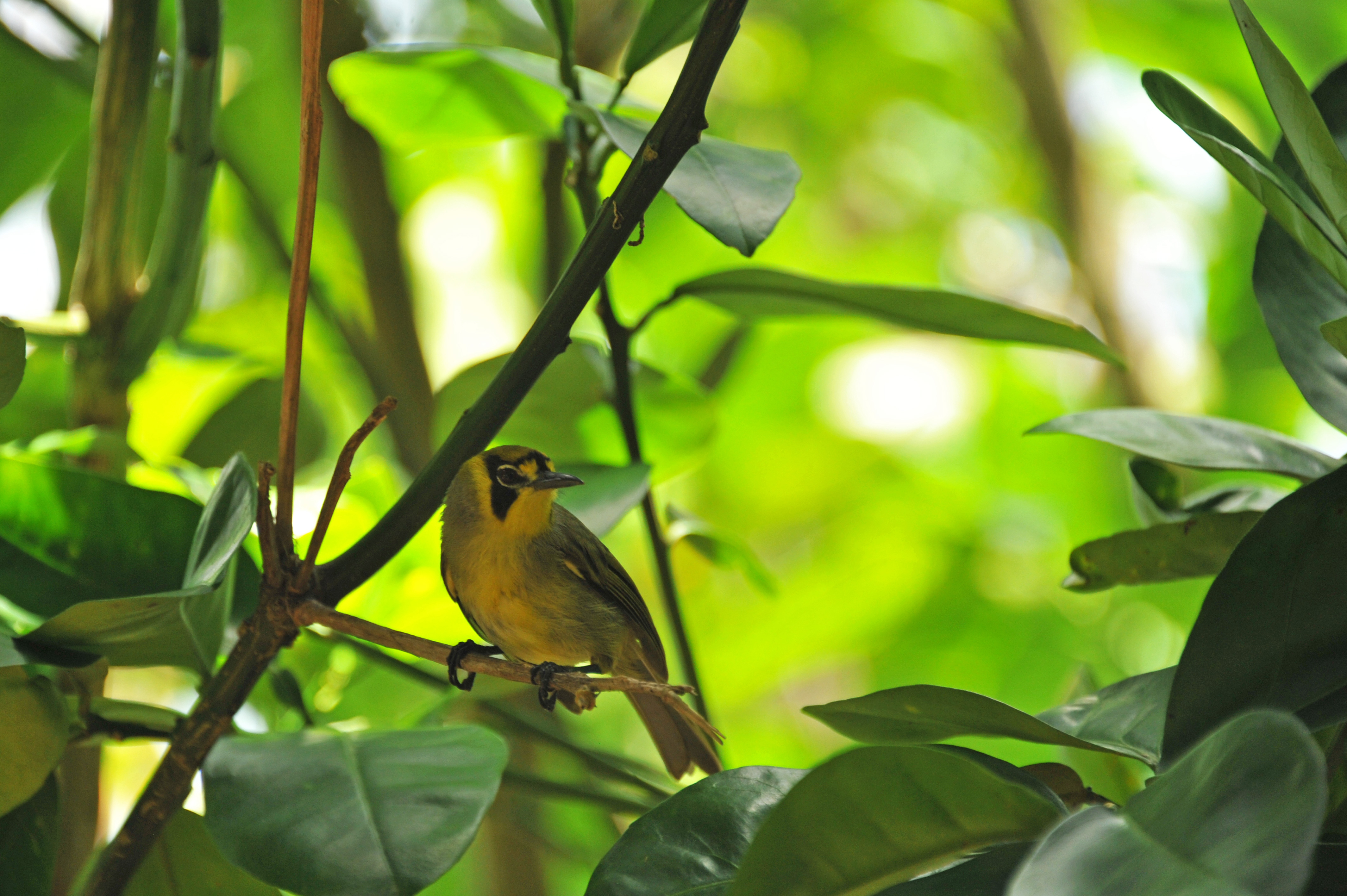 This little bird is Hahajimameguro of Hahajima Ogasawara Islands of Japan. This bird has only distributed in the world Hahajima and imotojima and Mukojima. imotojima and Mukojima is uninhabited.